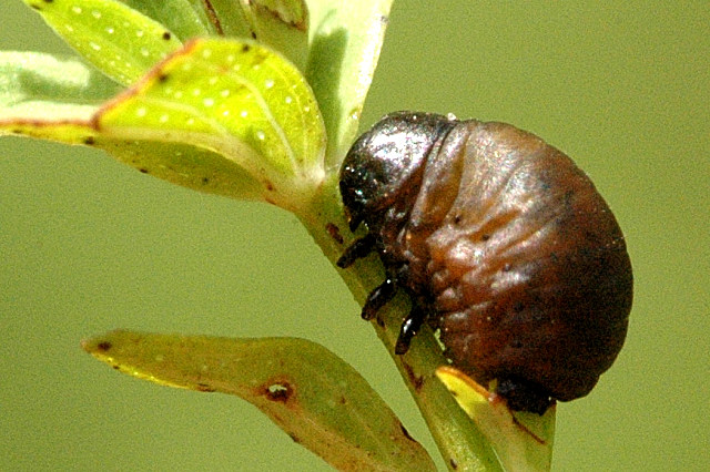 Picture taken in Commanster, Belgian High Ardennes . Species: Chrysolina varians larva